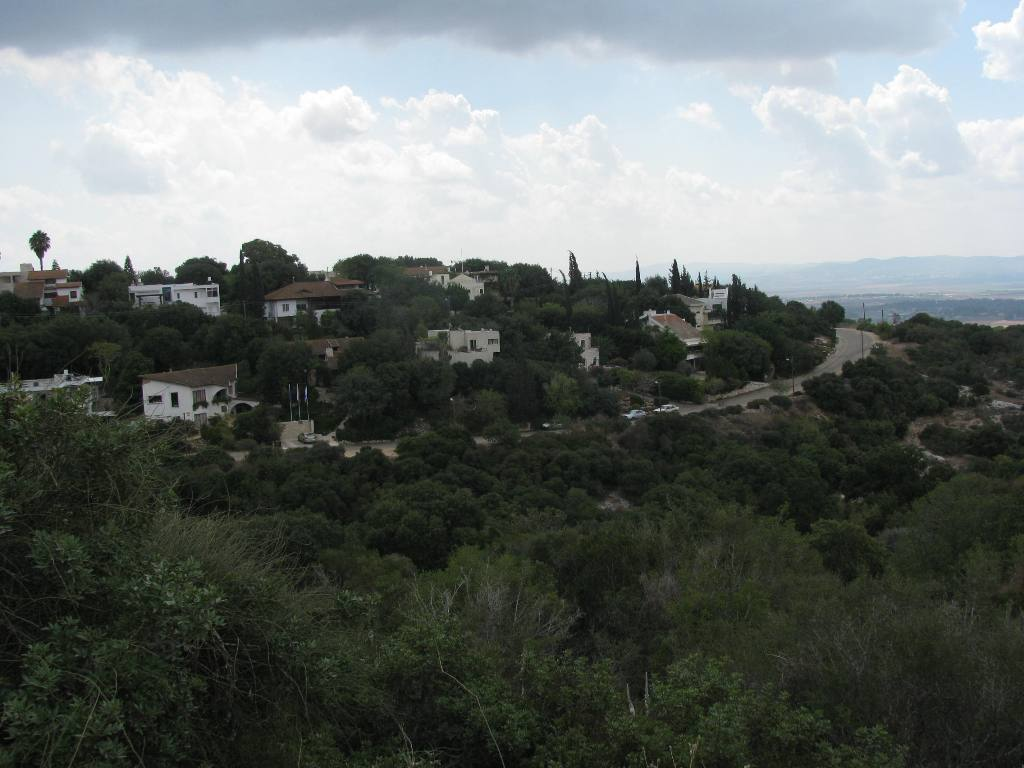 Pastoral community in a cloudy day